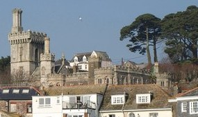 Place House, Fowey from the water